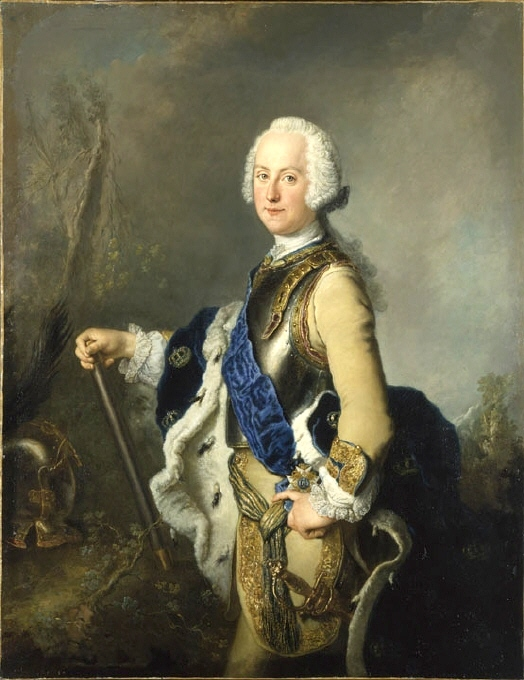 Adolf Frederick of Hosltein Gottorp, King of Sweden